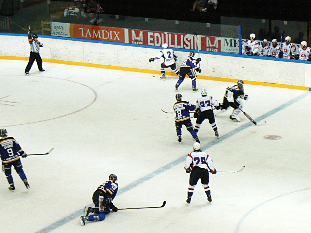 A delayed penalty call in effect in an ice hockey game between Espoo Blues and Torpedo Nizhny Novgorod at the 2007 Tampere Cup.